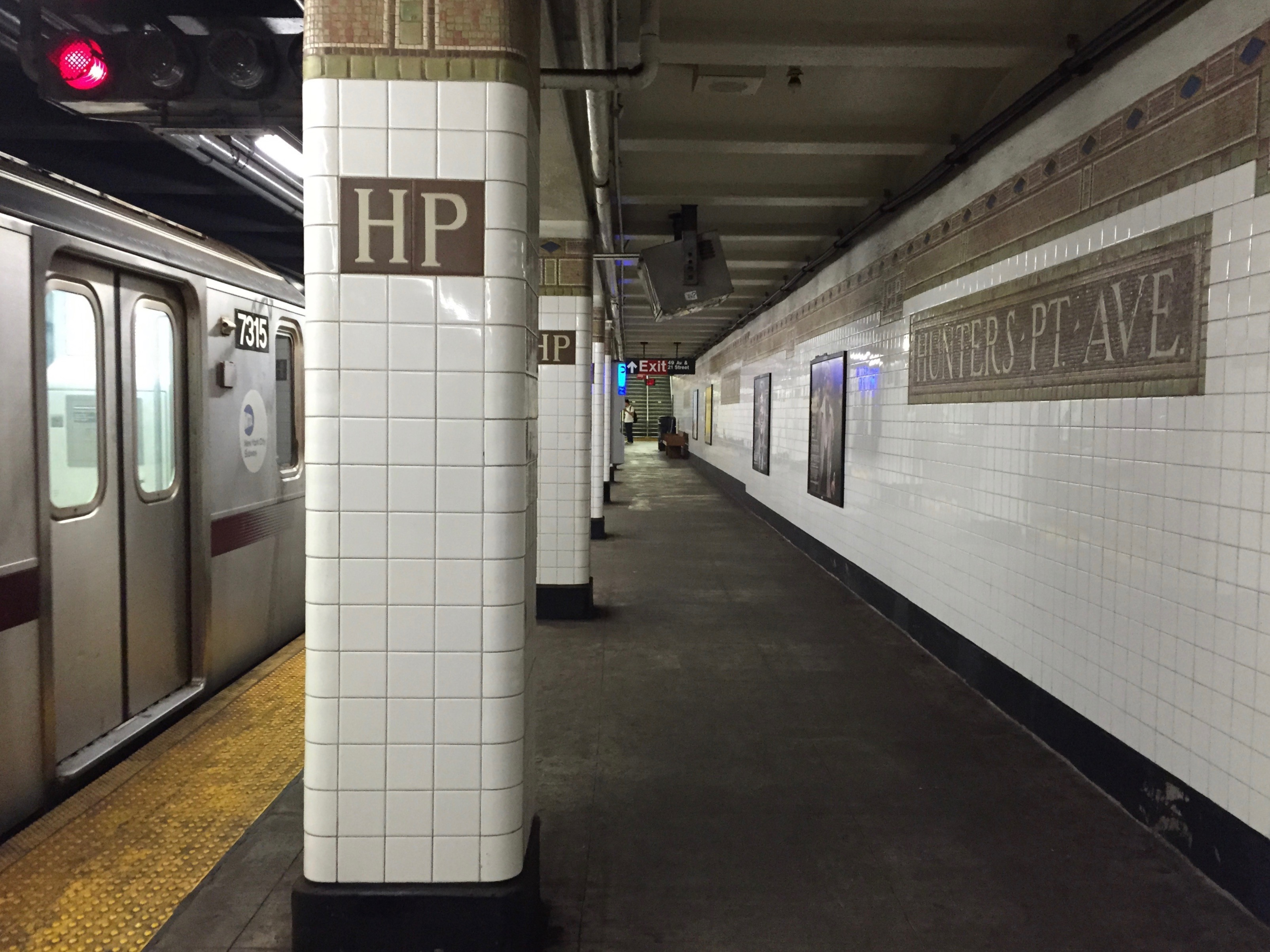 Flushing bound platform at Hunters Point Avenue on the 7.